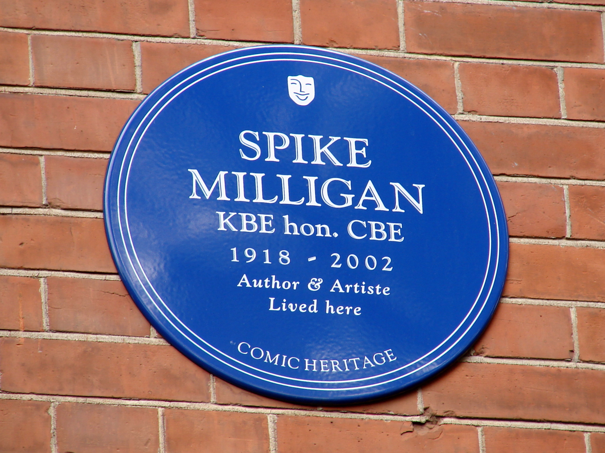 Spike Milligan plaque located at 9 Orme Court, London, United Kingdom